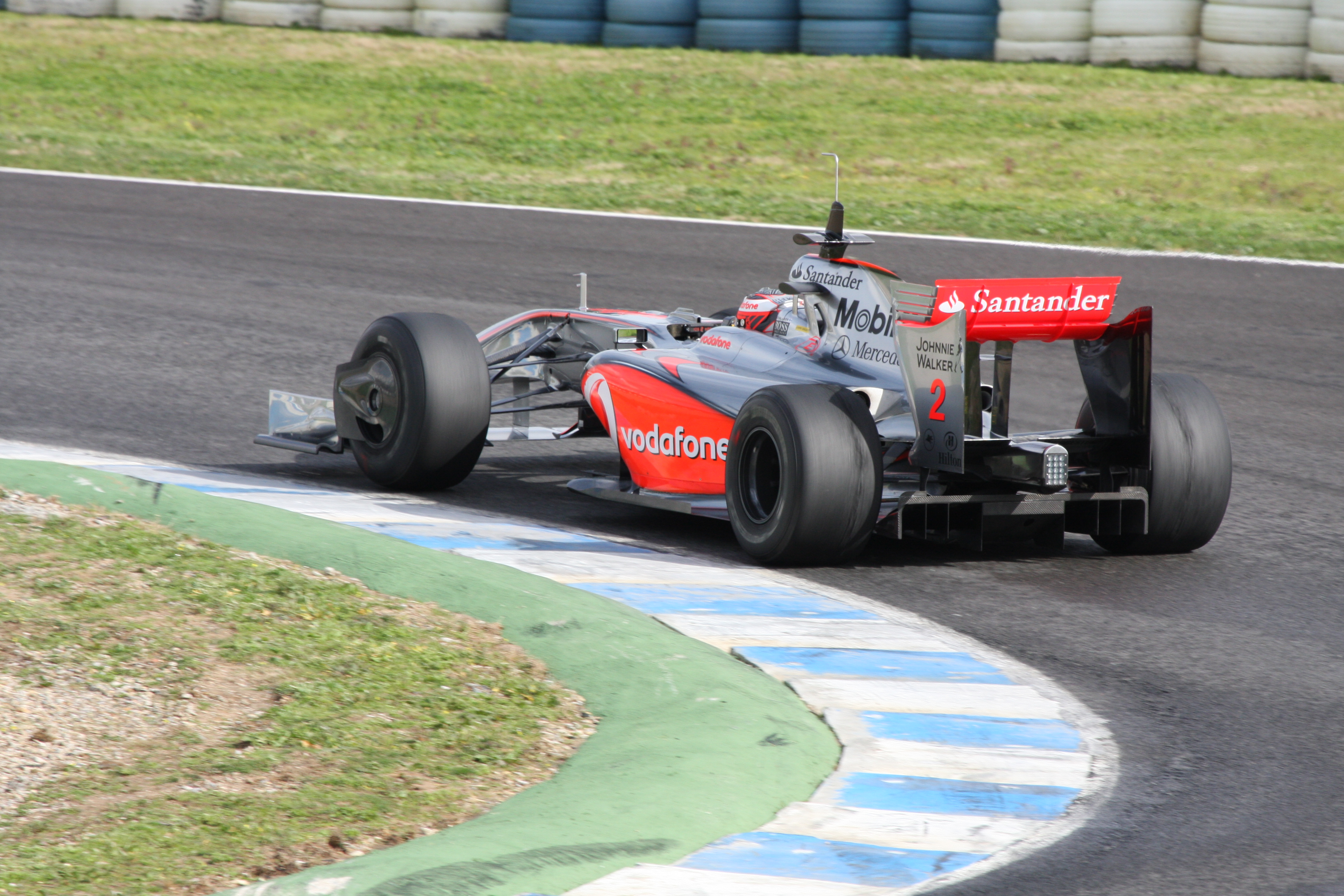 Heikki Kovalainen in the McLaren MP4-24, F1 testing session, Jerez 10-Feb-2009